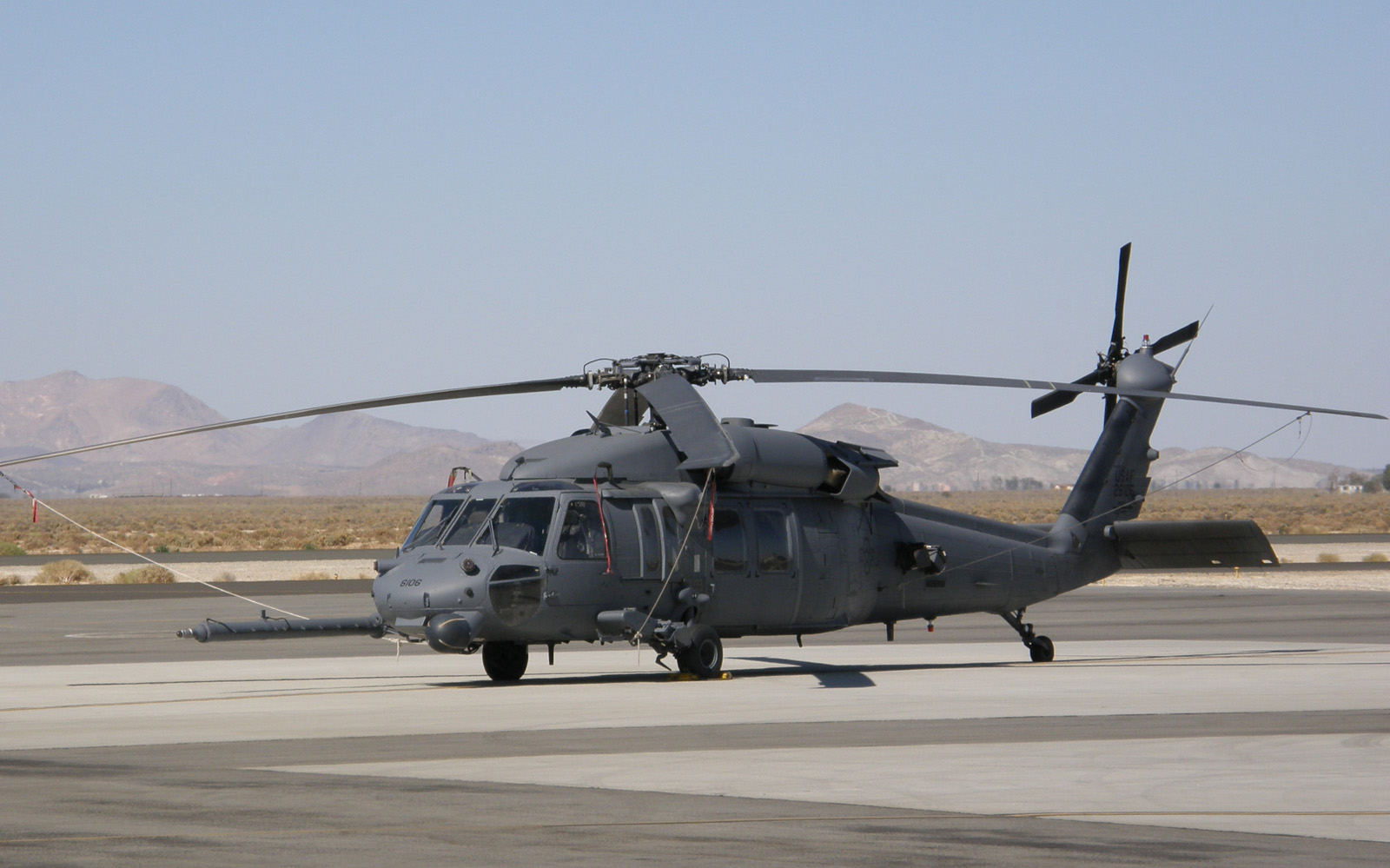 US Air Force MH-60 Blackhawk, Fox Field, Lancaster, CaliforniaLancaster, California